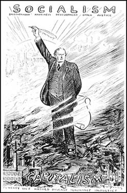 Editorial cartoon of Charles Edward Russell